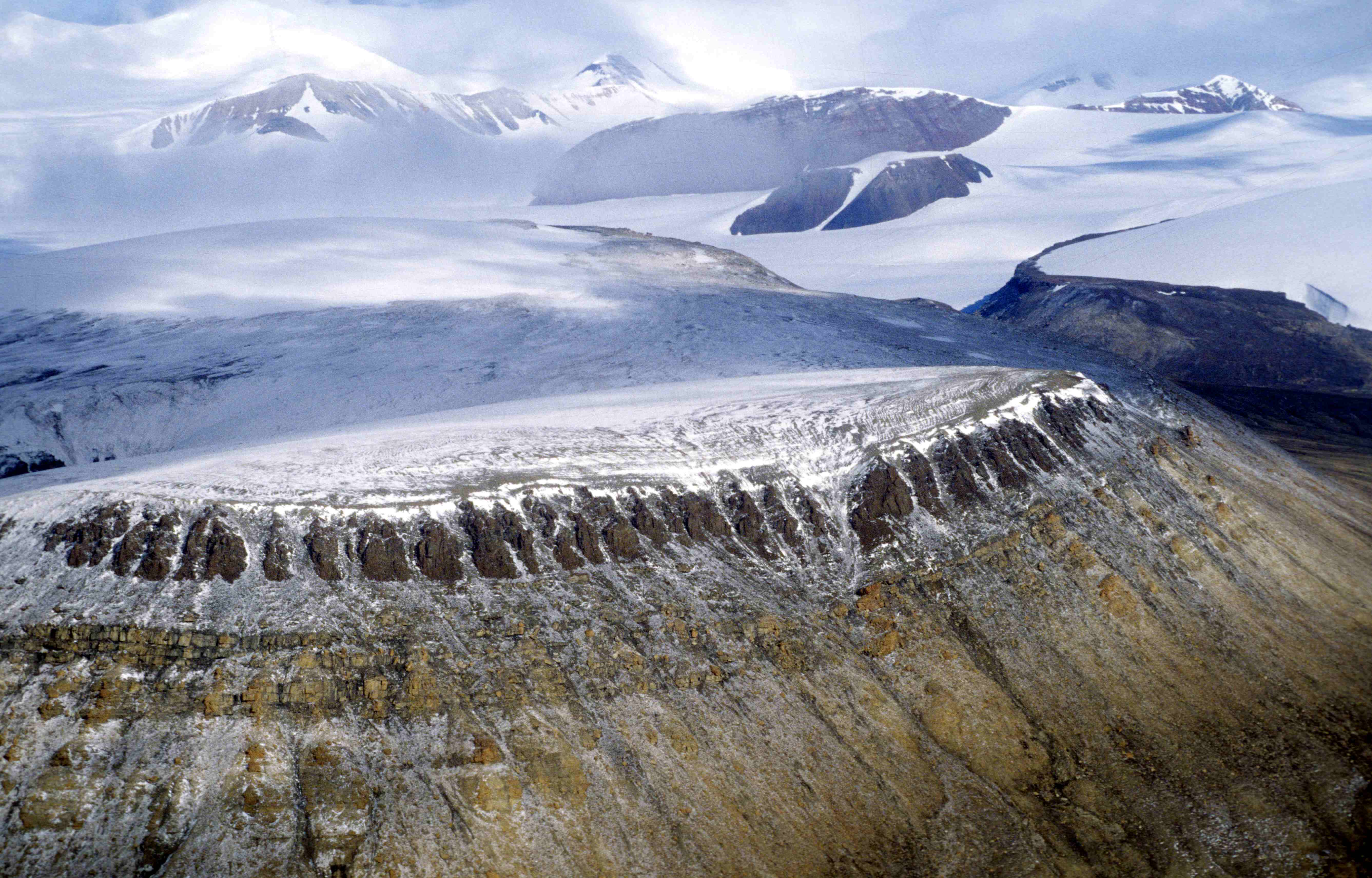 British Empire Range (in the north of Tanquary Fiord and Lake Hazen); Quttinirpaaq National Park, Nunavut, Canada